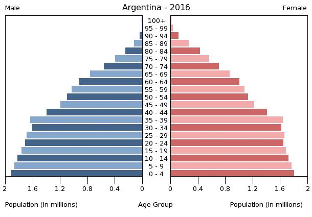 The population pyramid of Argentina illustrates the age and sex structure of population and may provide insights about political and social stability, as well as economic development. The population is distributed along the horizontal axis, with males shown on the left and females on the right. The male and female populations are broken down into 5-year age groups represented as horizontal bars along the vertical axis, with the youngest age groups at the bottom and the oldest at the top. The shape of the population pyramid gradually evolves over time based on fertility, mortality, and international migration trends.